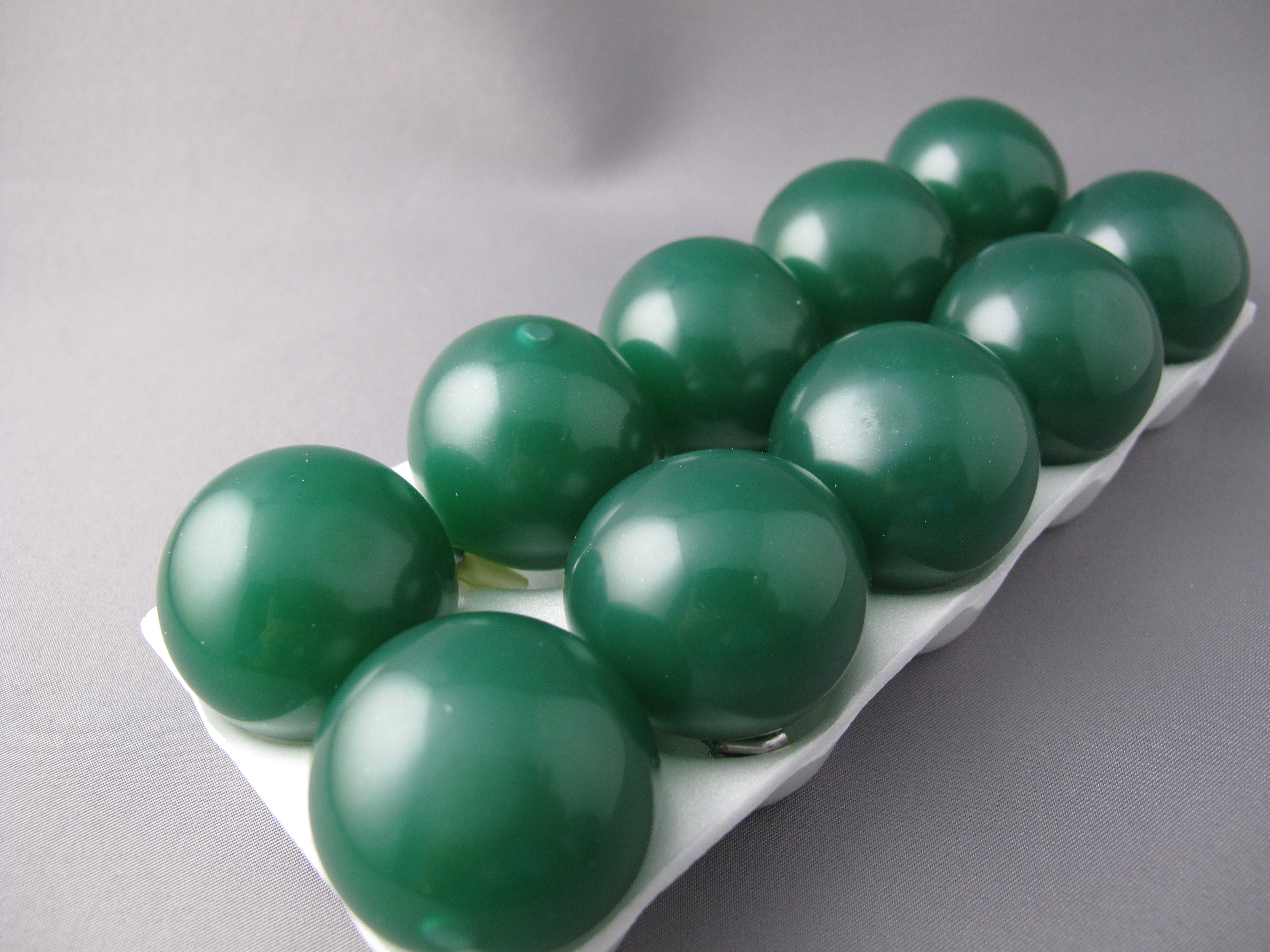 "marimo-youkan" , :Lake Akan Hokkaido,Japan